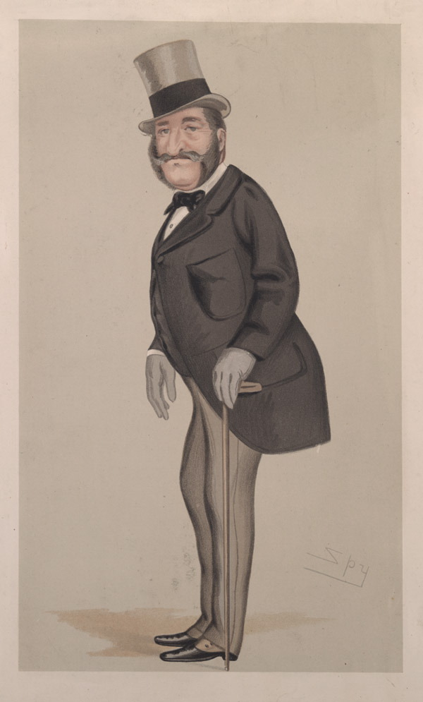 Statesmen No.233: Caricature of The Duke of Beaufort. Caption reads: "the Duke of Sport"